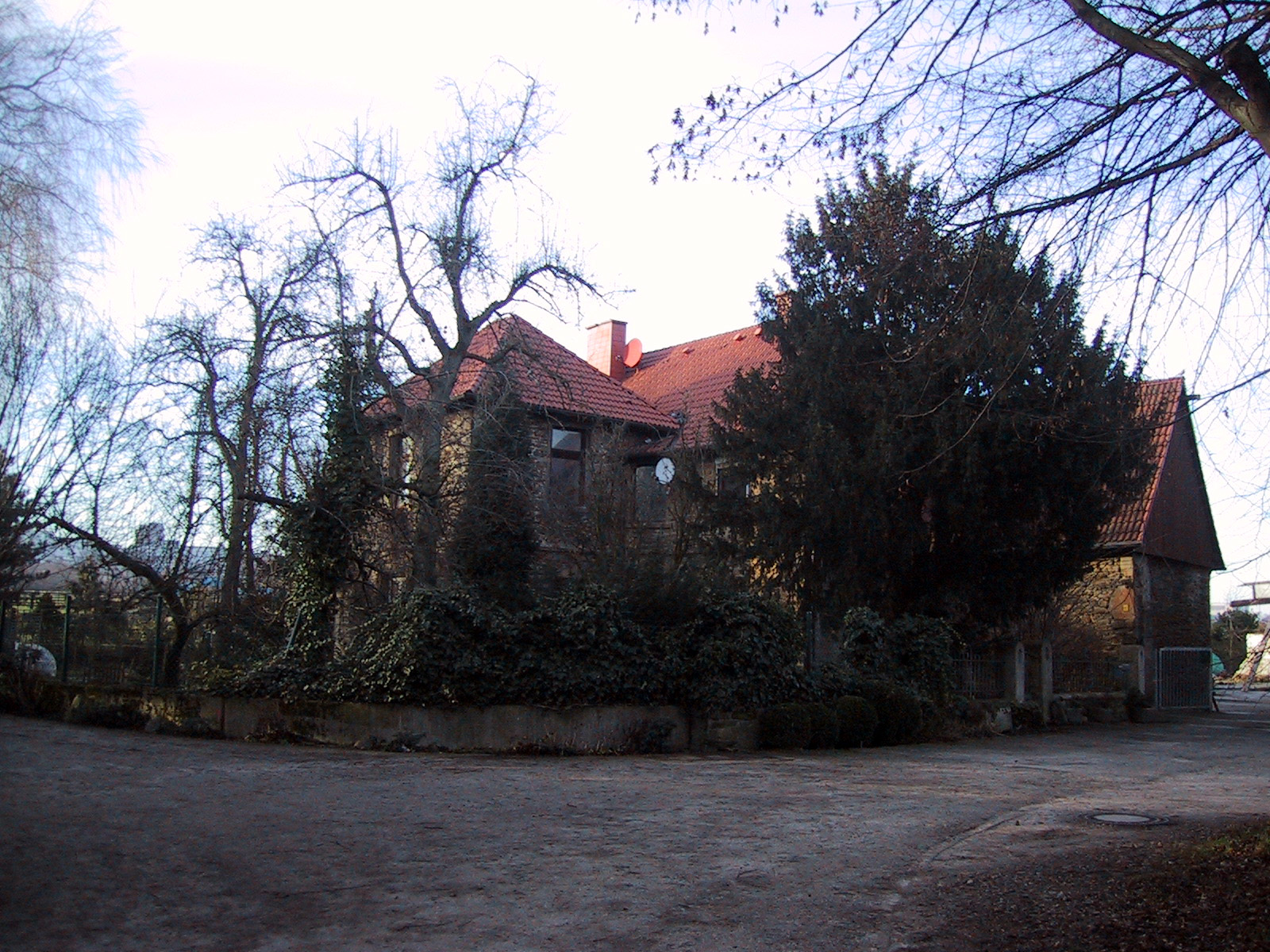 Manor house Heven in Bochum-Querenburg, now a farm